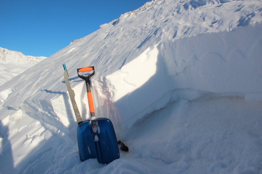 a snowprofile high-lighting the avalanche problem "wind-drifted snow"